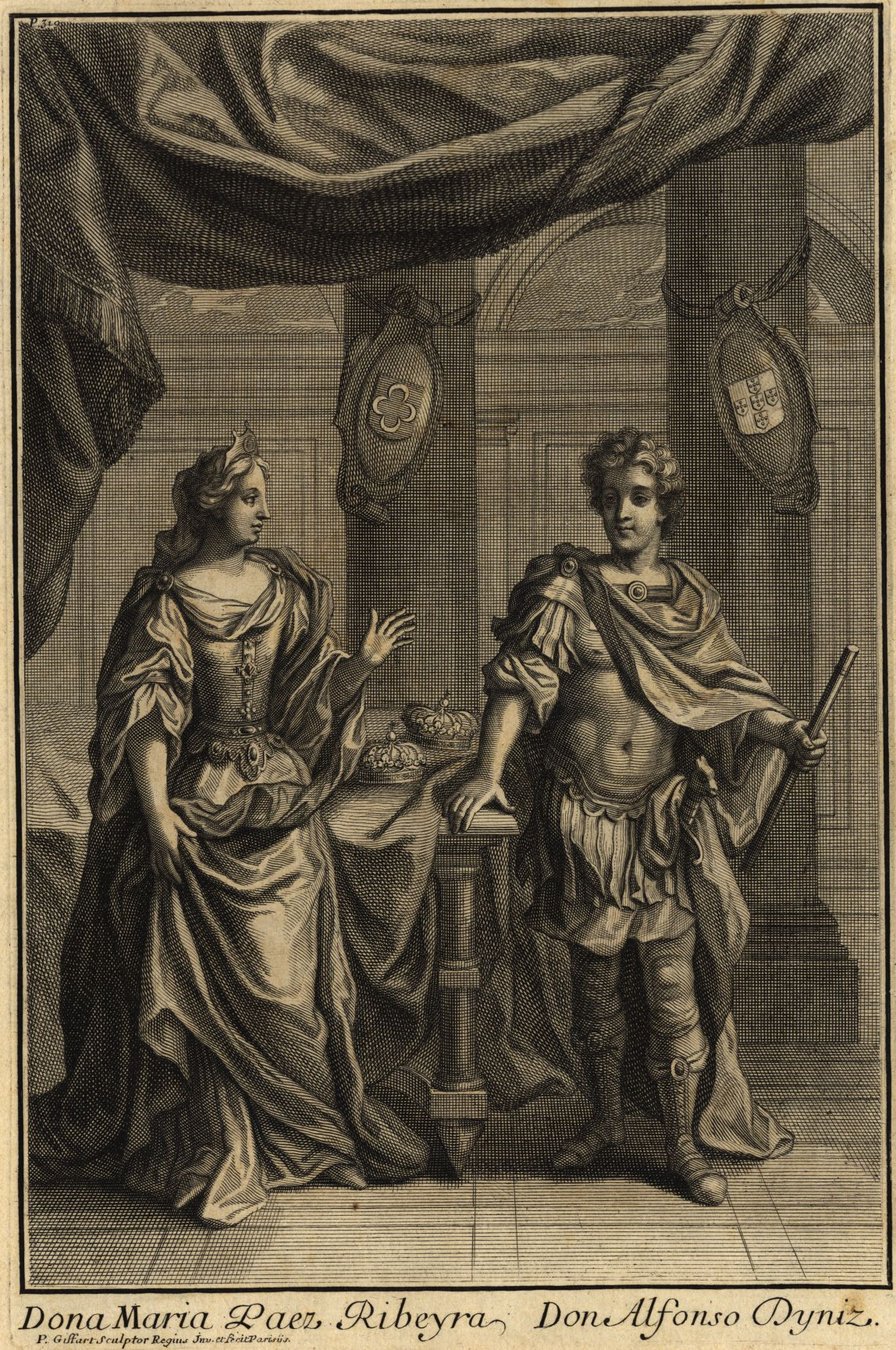 A 1694 engraving depicting D. Afonso Dinis (c. 1260-1310), bastard son of King Afonso III of Portugal, with his wife, D. Maria Pais Ribeira, 15th Lady of the House of Sousa.